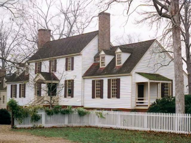 A view of the St. George Tucker House in Colonial Williamsburg